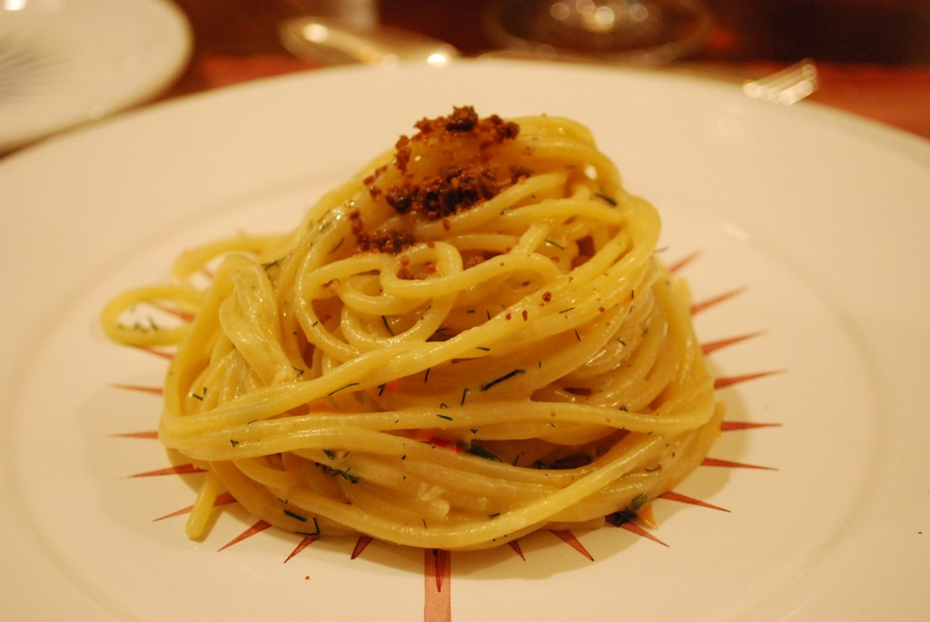 Vermicelli with a lemon-pecorino fonduta with fennel fronds and bottarga